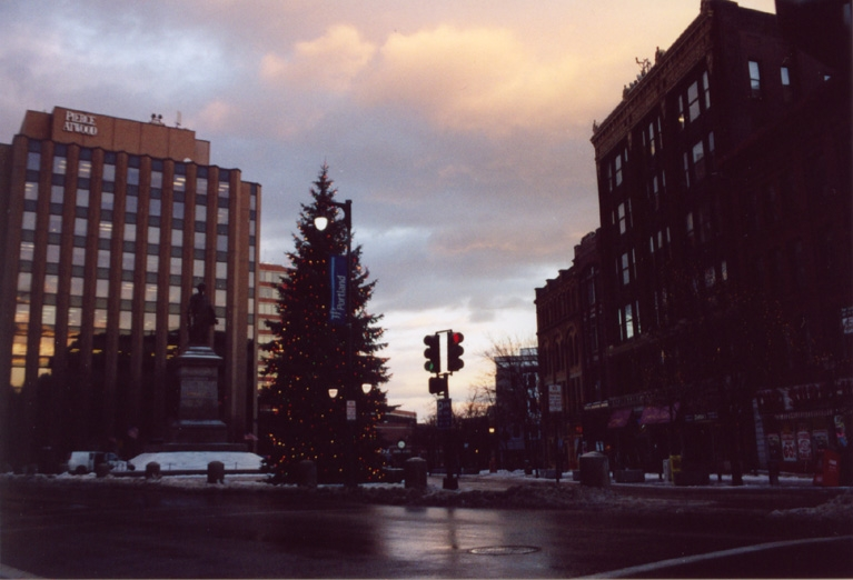 Monument Square (Congress Street, Portland, ME)